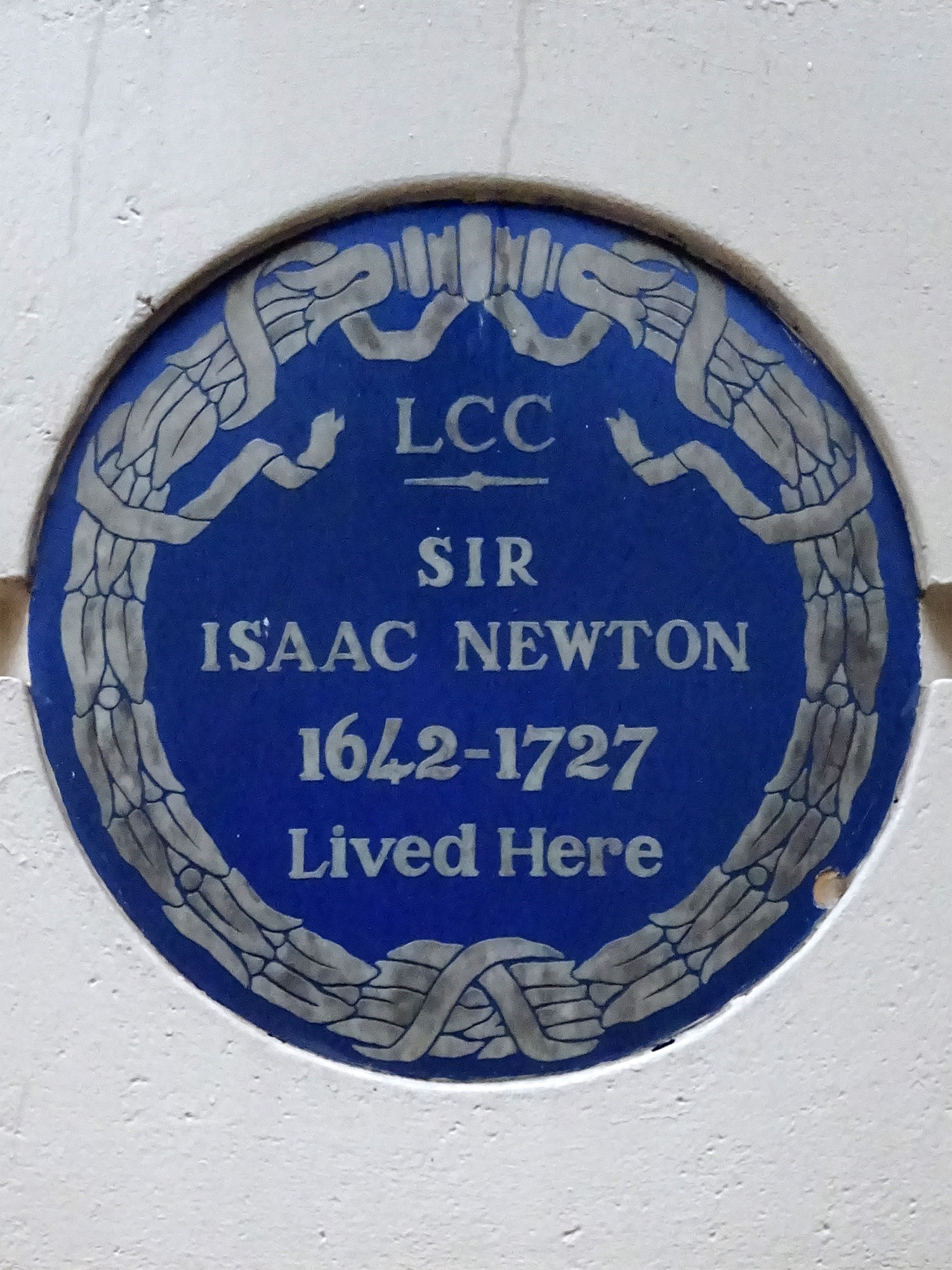 Blue plaque erected in 1908 by London County Council at 87 Jermyn Street, St James's, London SW1Y 6JP, City of Westminster